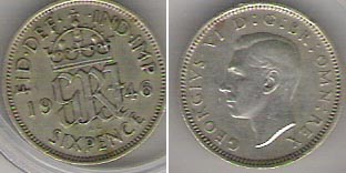 1946 Sixpence George VI